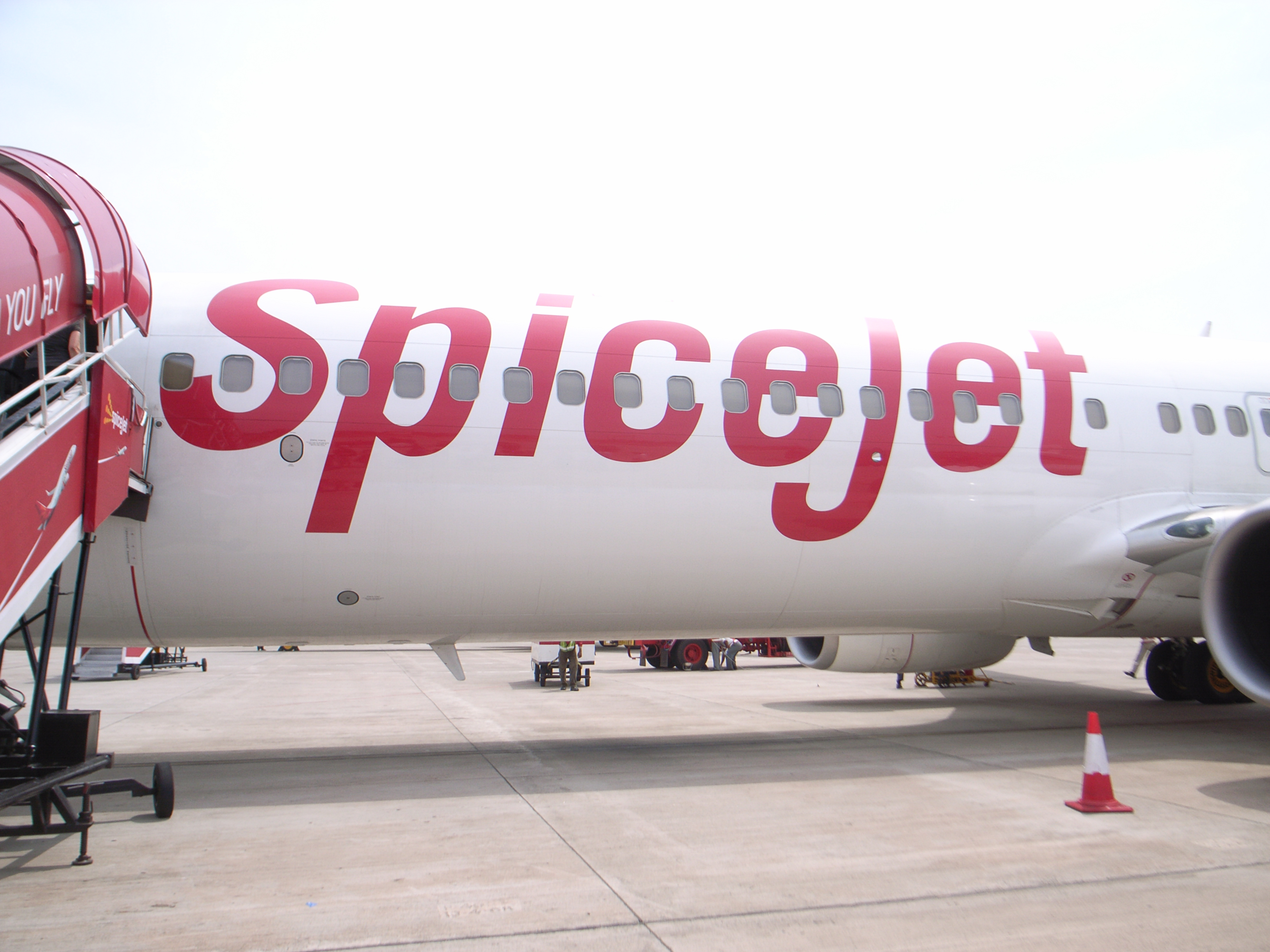 SpiceJet aircraft bound for Mumbai at Goa Airport, India.